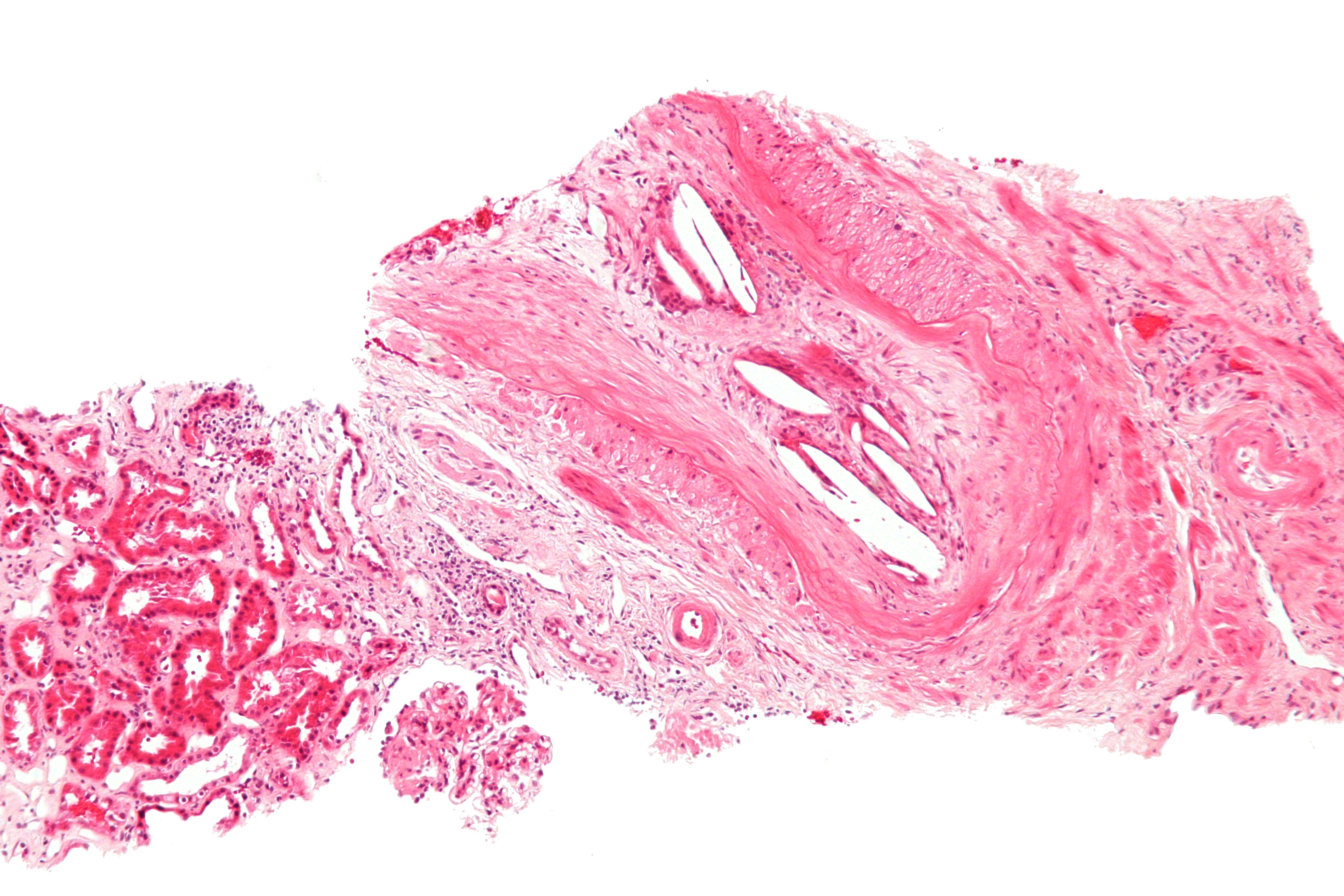 Intermediate magnification micrograph of a cholesterol embolus in a medium sized artery of the kidney. This is also known as atheroembolic renal disease and atheroembolism.[1] Kidney biopsy. H&E stain. The image shows numerous intra-arterial cholesterol clefts with an associated giant cell reaction. Related images Intermed. mag. High mag. Very high mag. References ↑ (Aug 2001). "Atheroembolic renal disease.". J Am Soc Nephrol 12 (8): 1781-7.